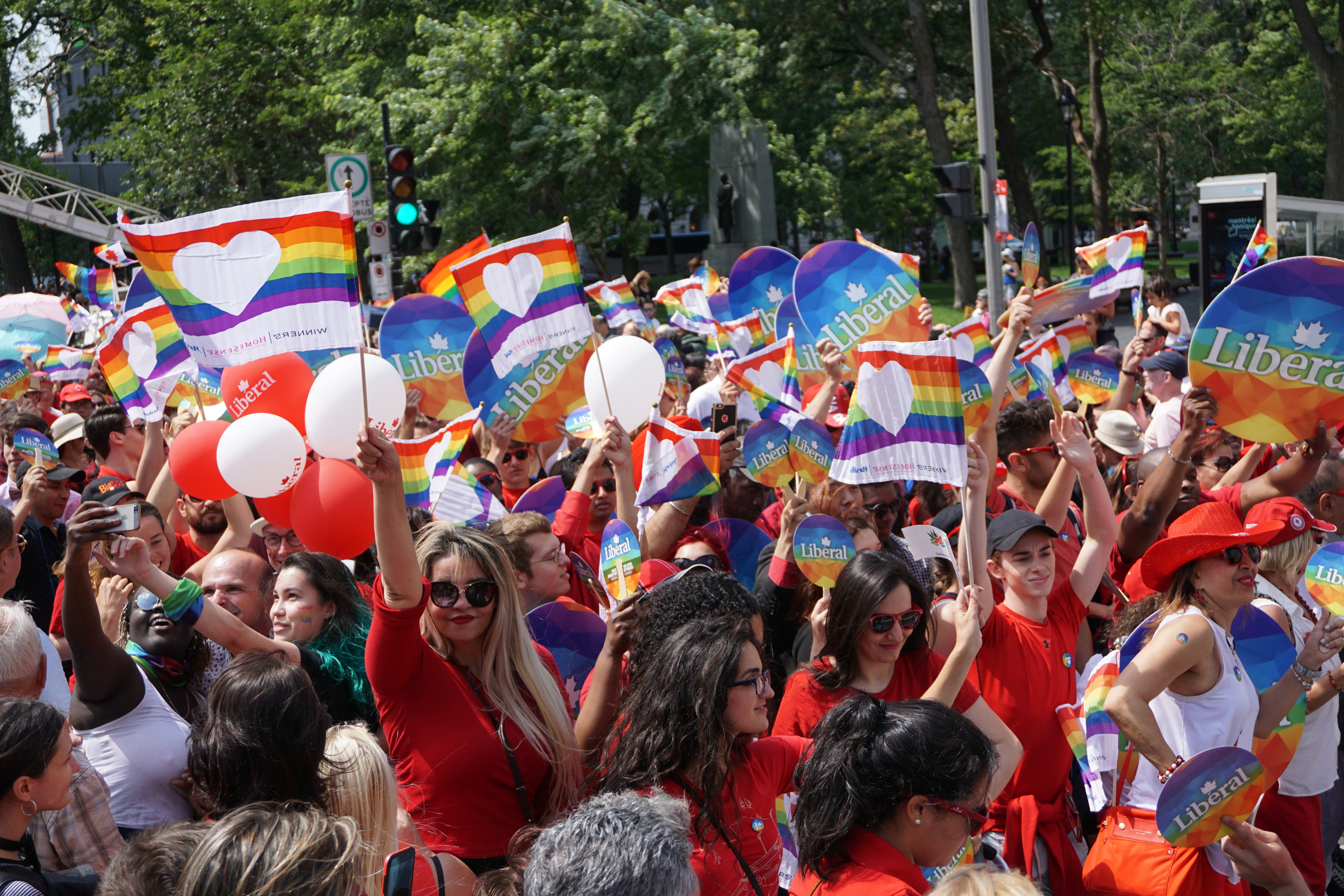 Canada Pride Montréal 2017: Libéral